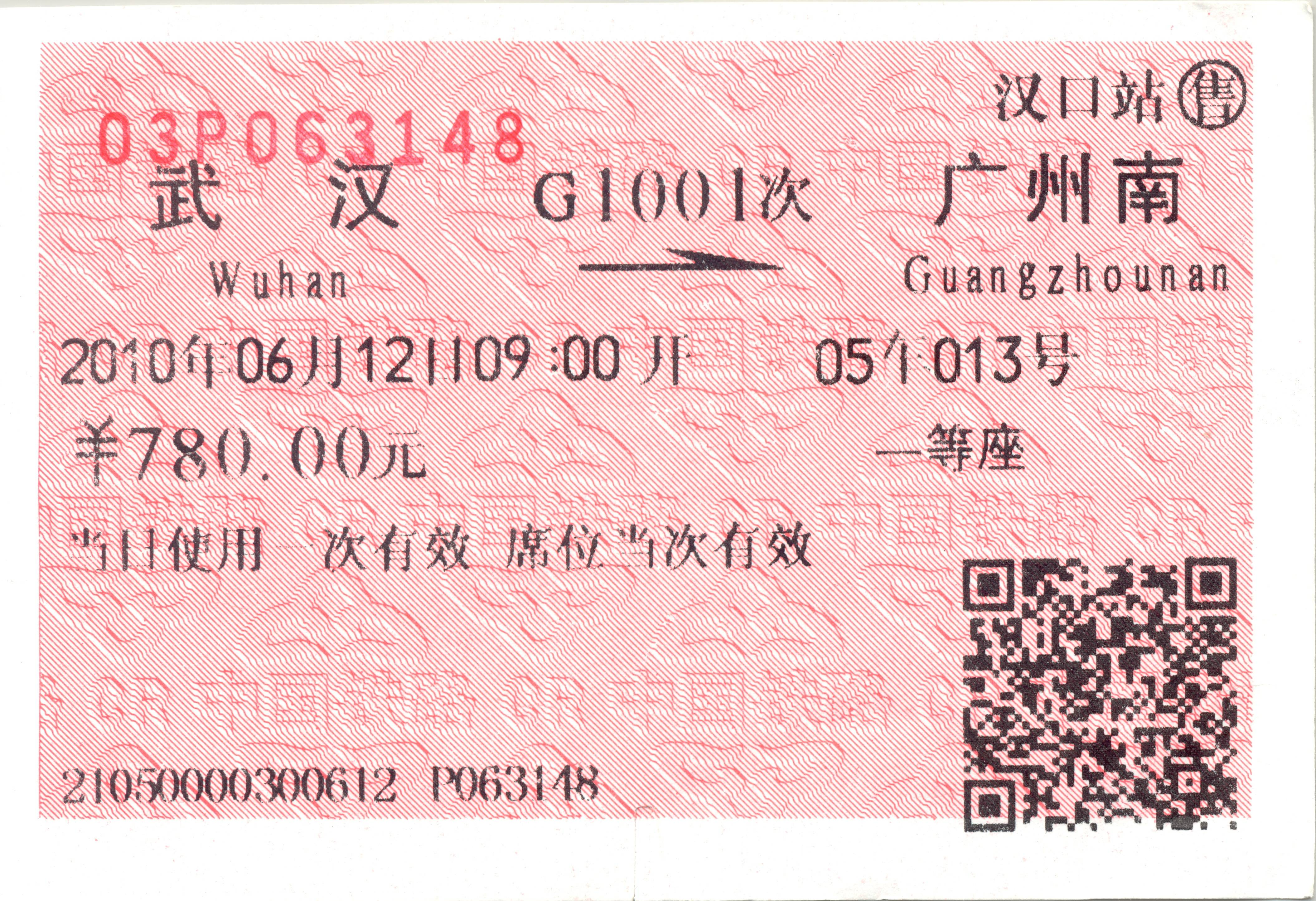 China Railway Ticket (Plain Paper)